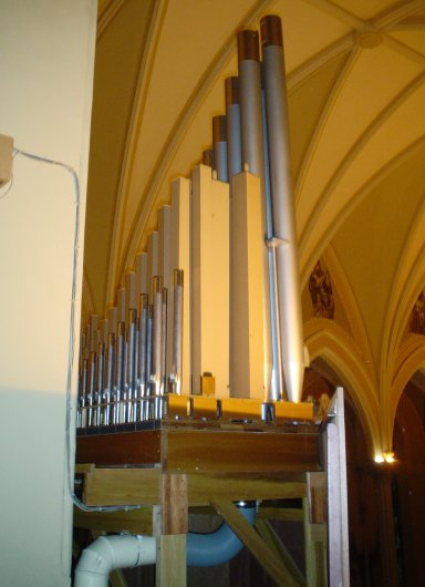 A rear view of the pipe organ at St. Raphael's Cathedral, Dubuque, Iowa. I took this photo in January of 2006. Jesster79 21:22, 31 January 2006 (UTC)